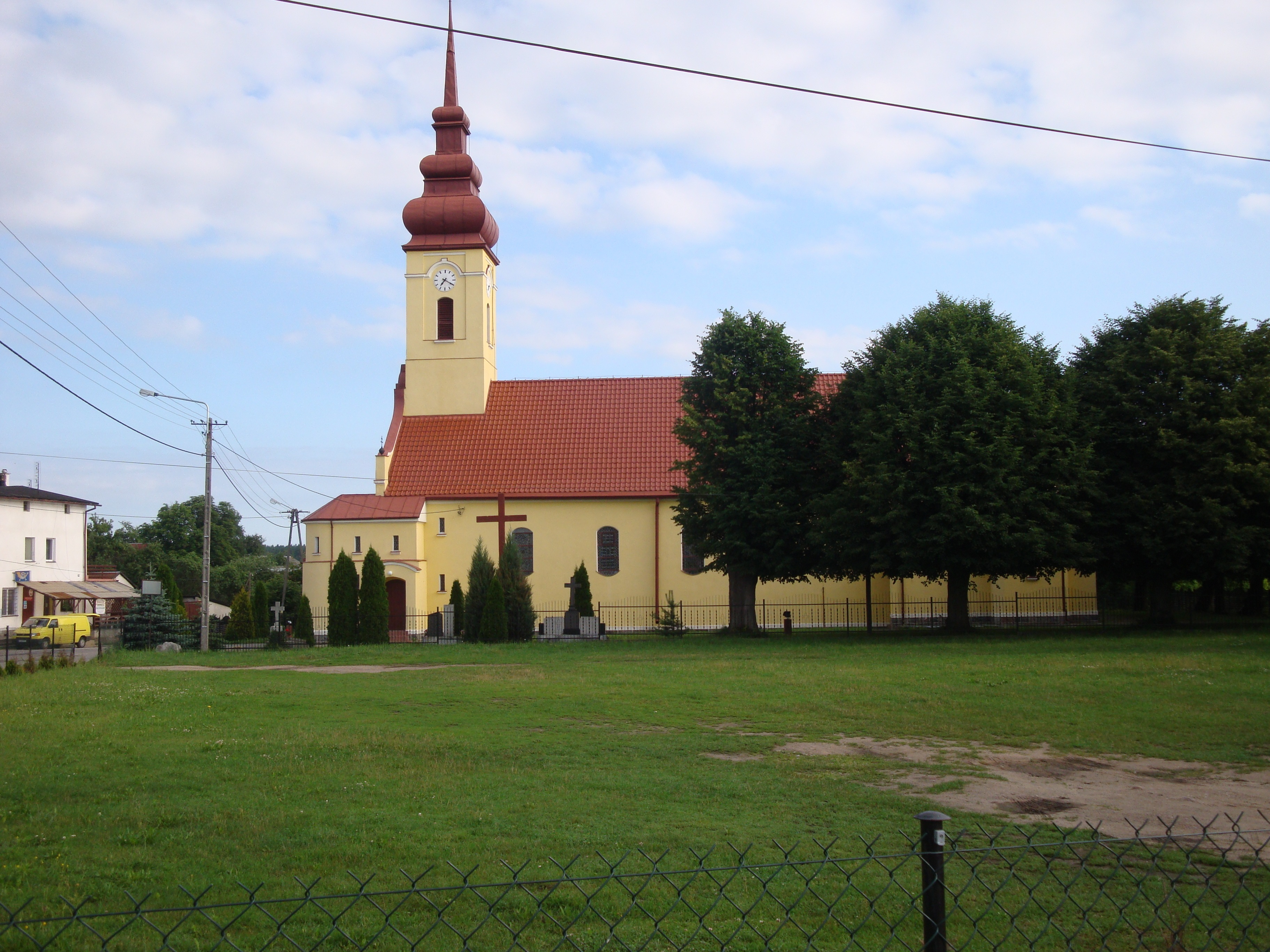 Zdroje-village near Tuchola, Poland